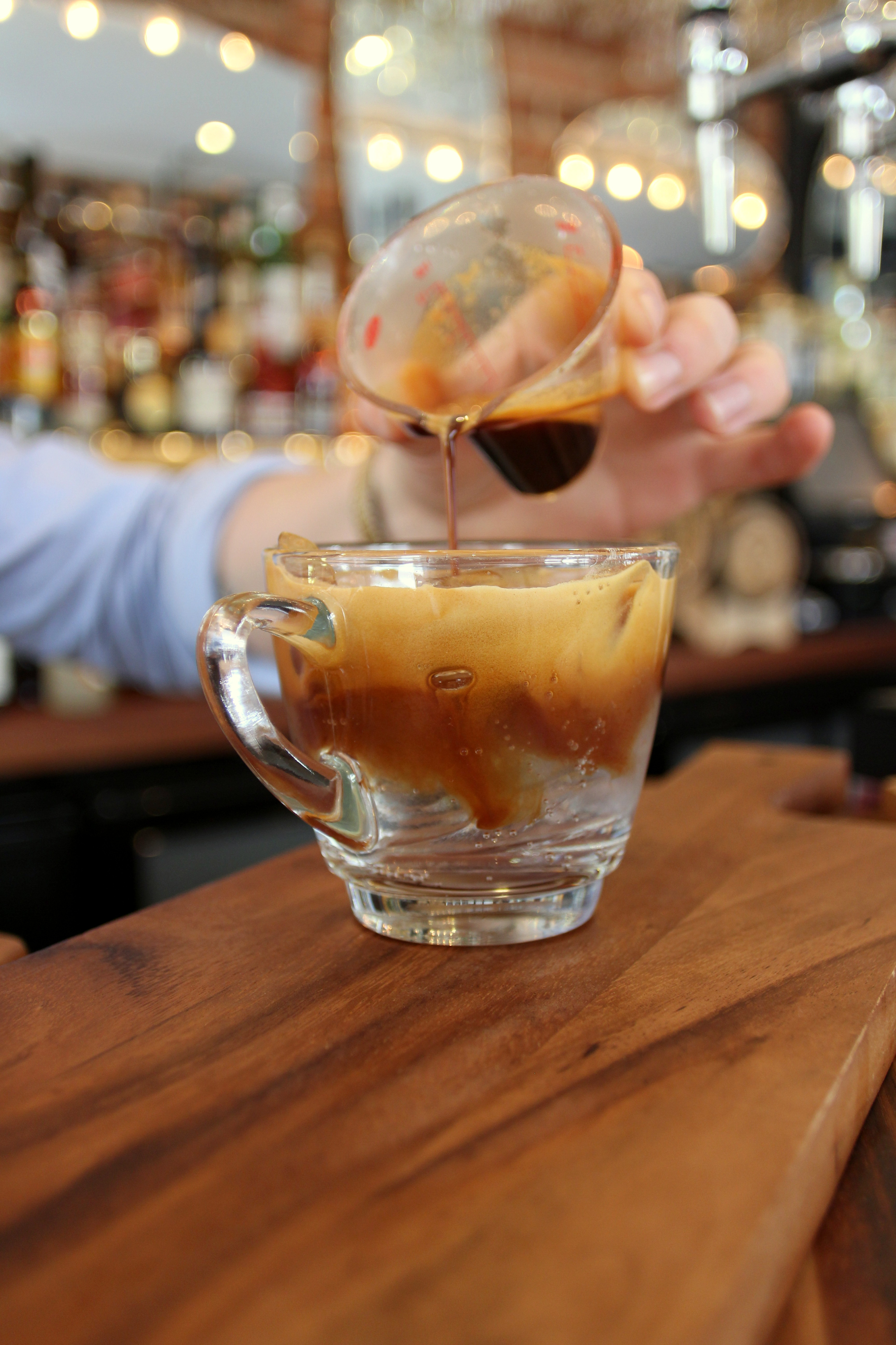 The bartender made an espresso and tonic in Oxfordshire County, South East England Region on April 18, 2015.